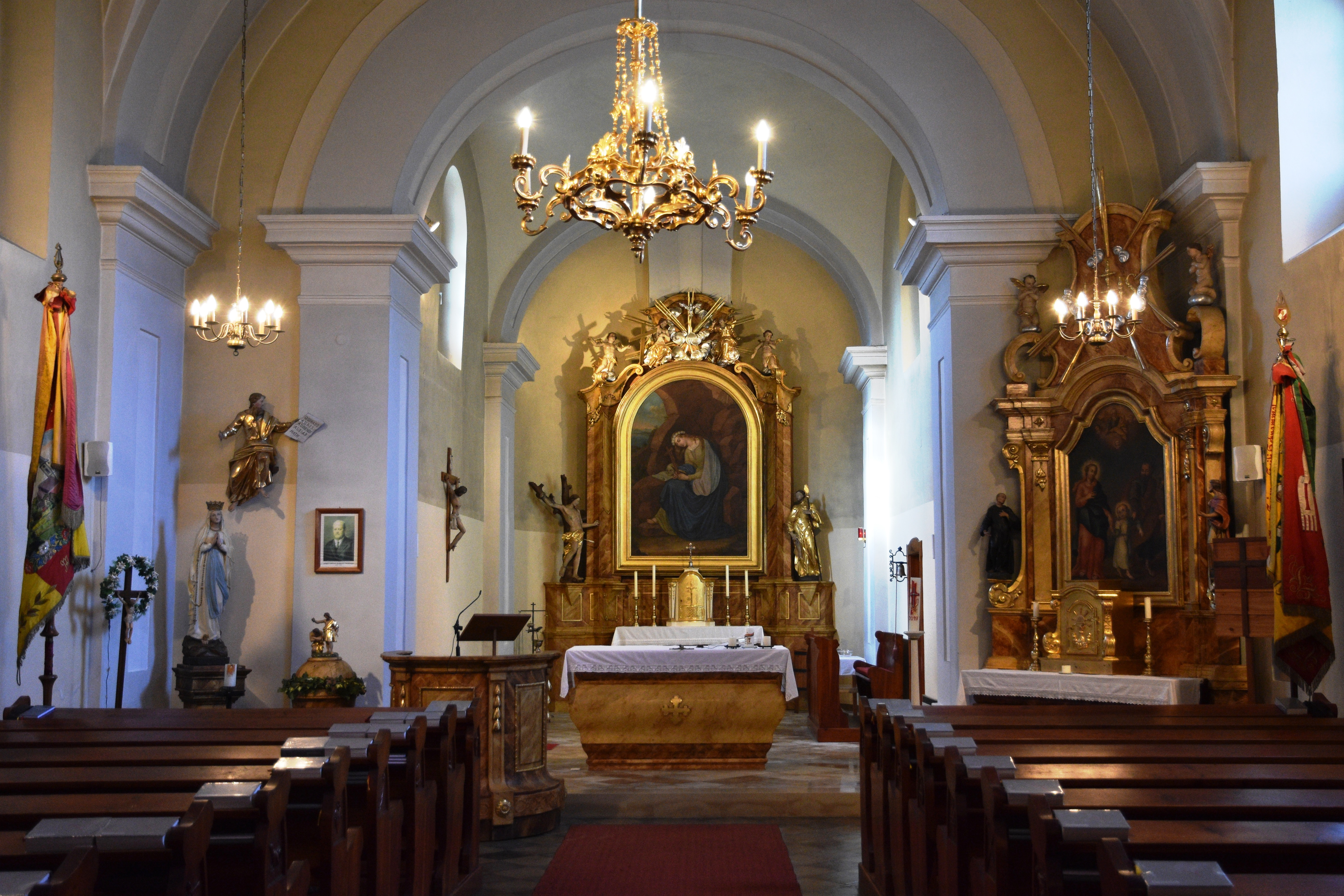 Church Pfarrkirche hl. Rosalia, Moschendorf Interior